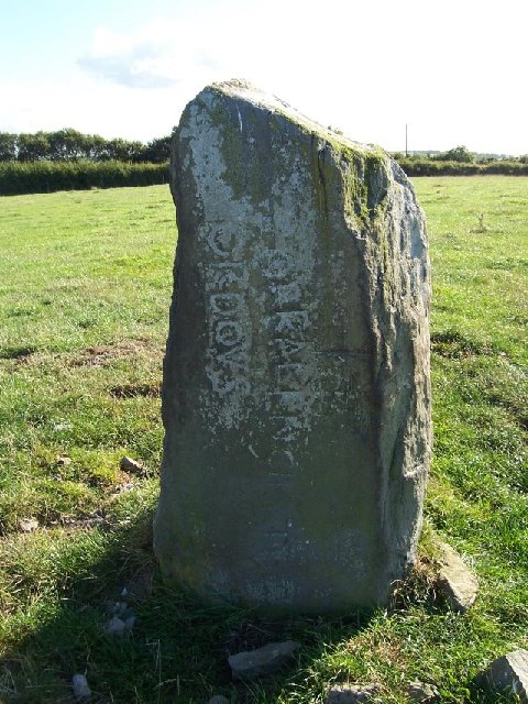 Corbalengi Stone at Dyffryn Bern, Penbryn, Ceredigion, Wales. Inscribed: Cor Balenci jacit Ordous and interpreted as: "The Heart of Balengus the Ordovician lies here." Also found here were an Urn containing ashes and a gold coin dating to AD 69 along with silver and bronze coins.